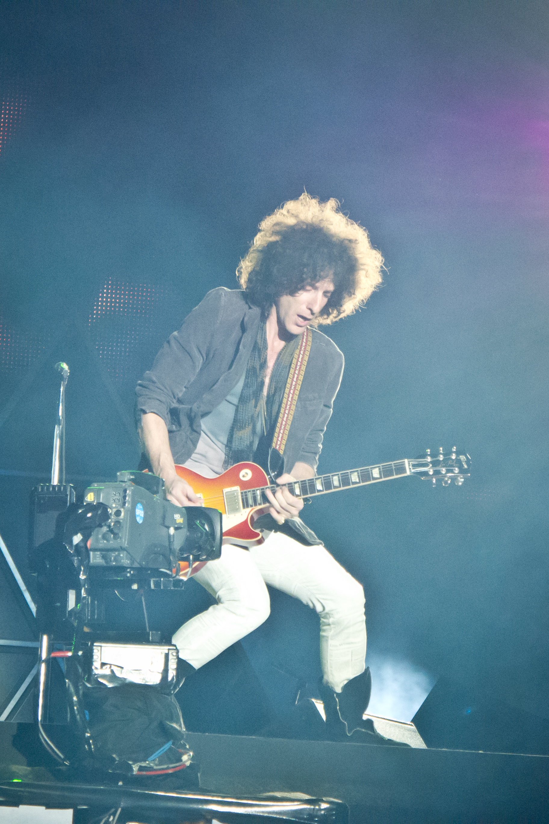 Lenny Kravitz and Craig Ross live in Rock in Rio Madrid 2012.